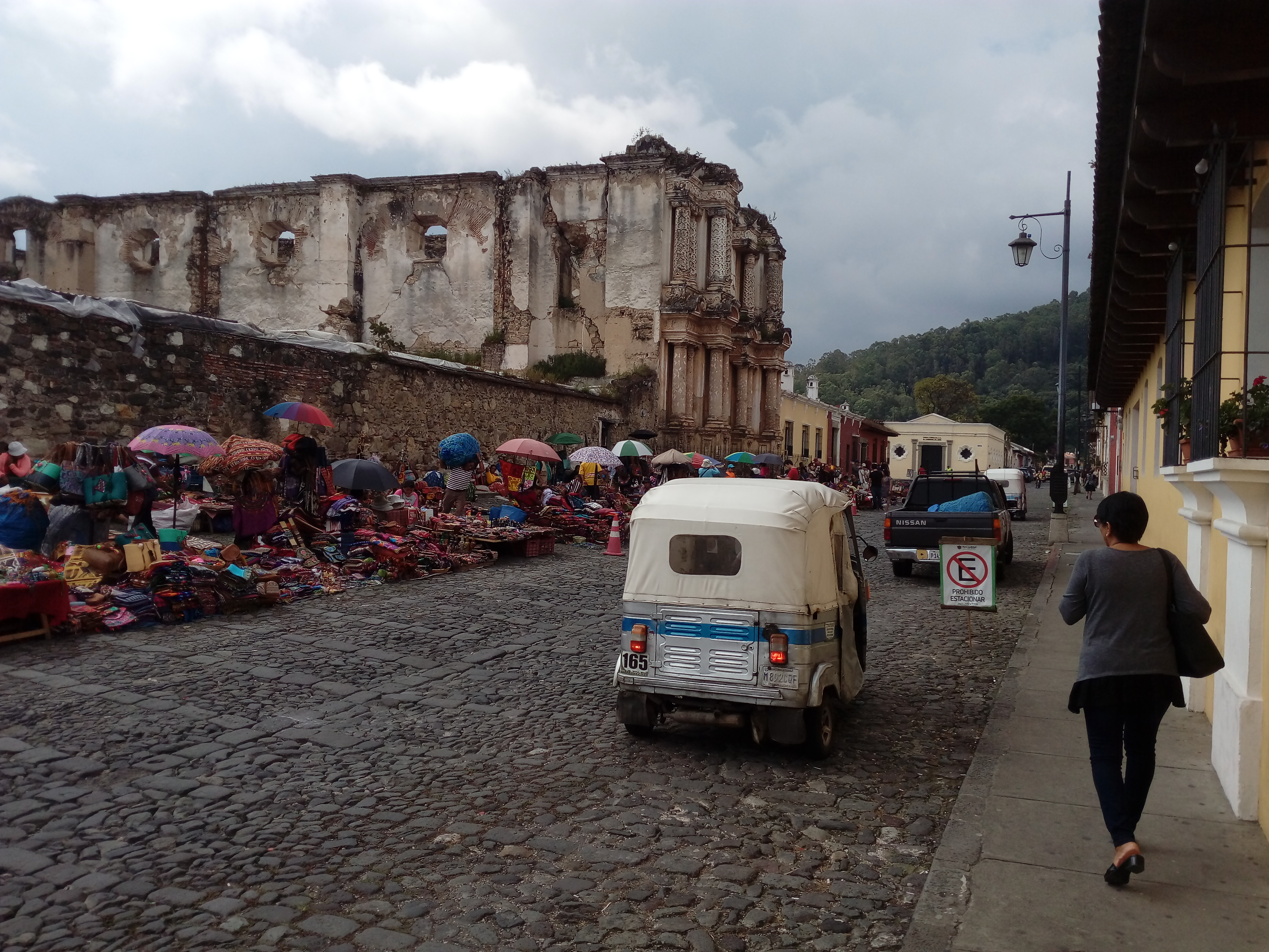 Picture of the ruins of the convent and church of Santa Teresa and the artisan market of Antigua Guatemala.